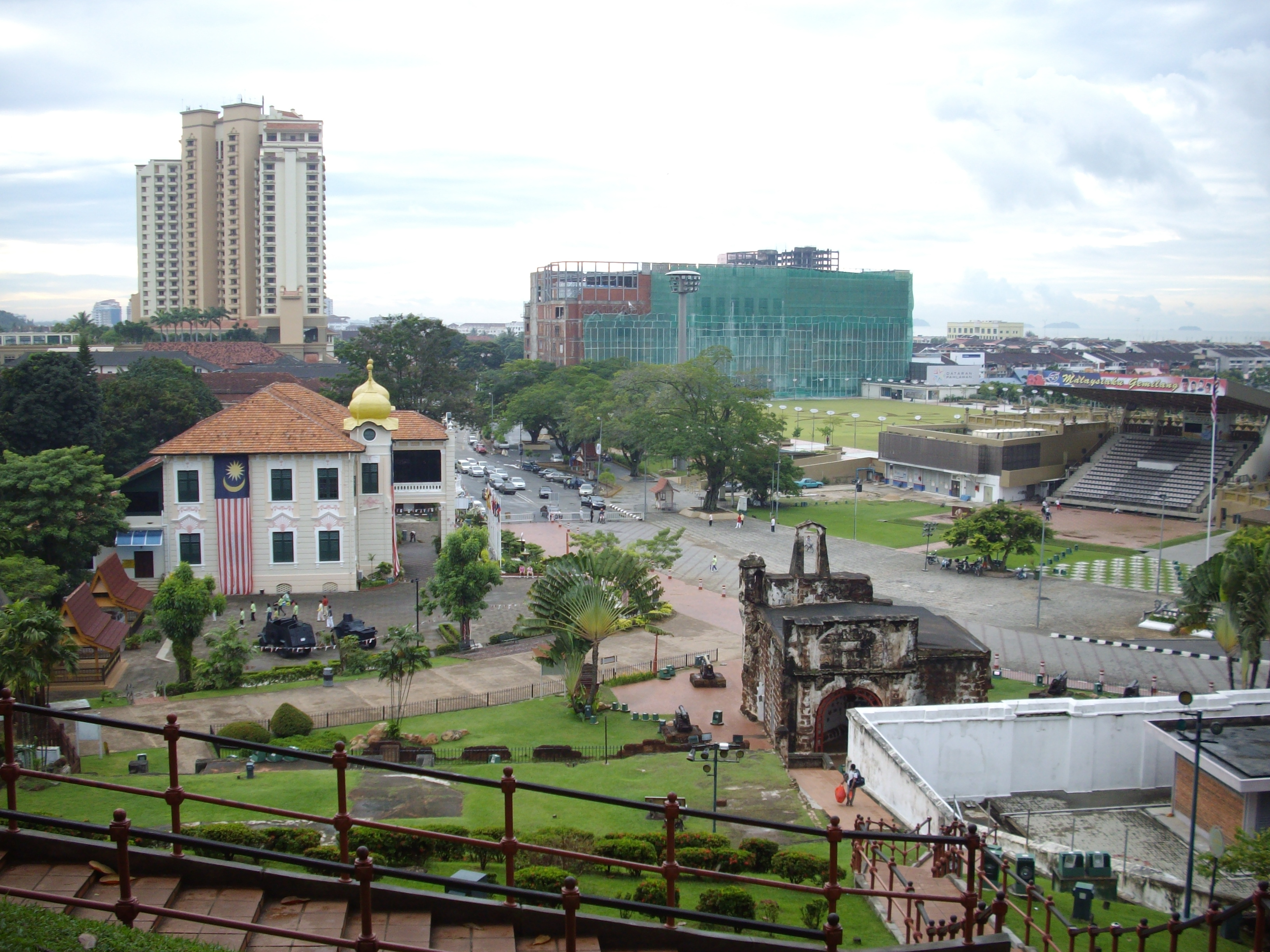 Historic Melaka port as viewed from "St Paul's Hill"(25-10-2007)